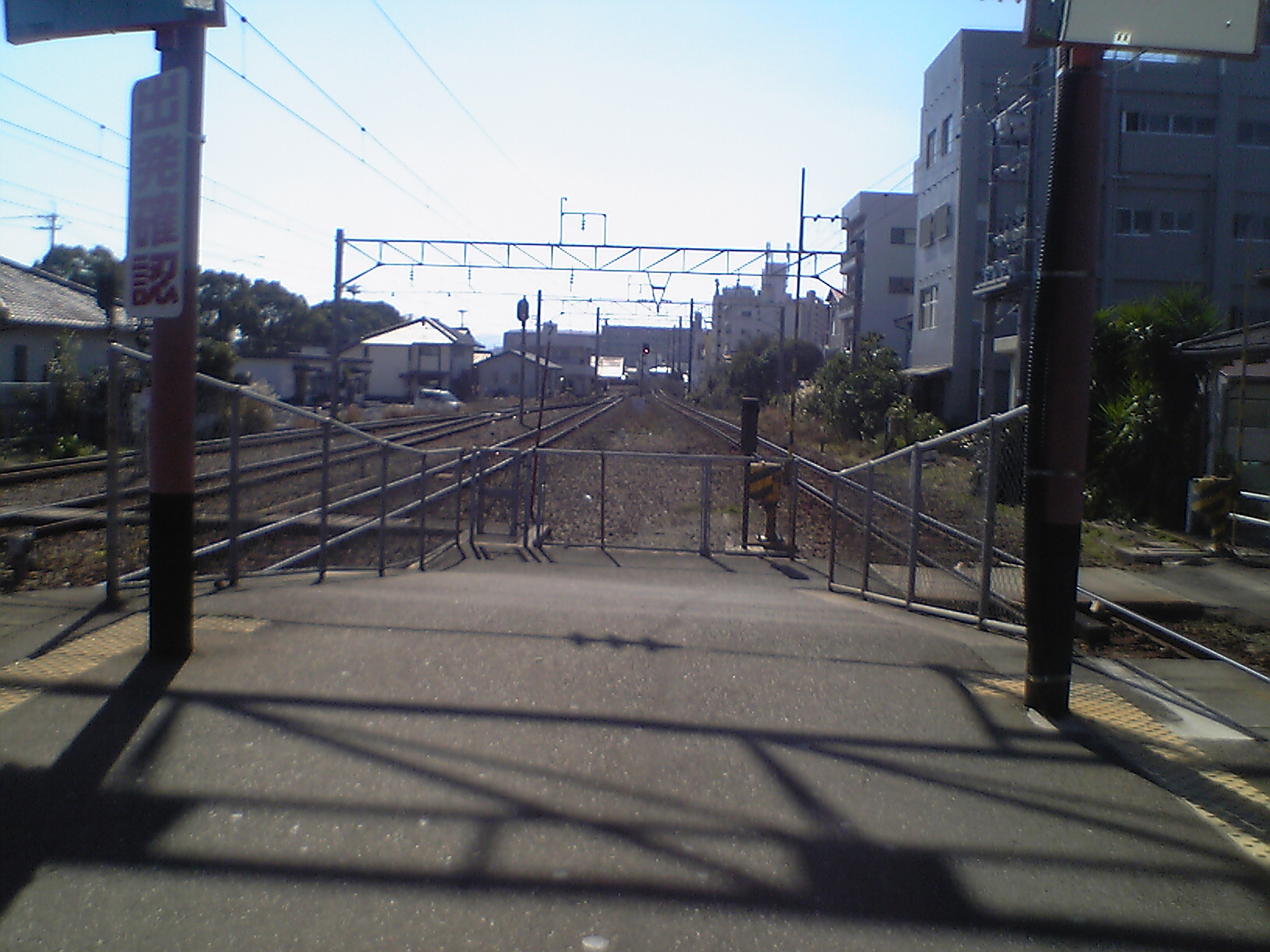 Miyazaki-Jingu Station